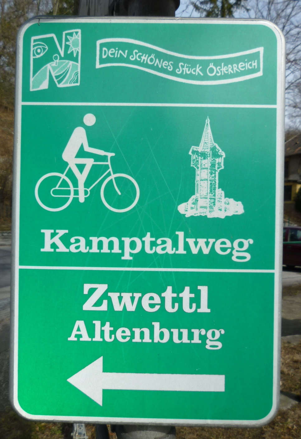 Directory sign of Kamptalweg cycle route in Rosenburg am Kamp